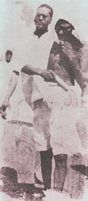 V. A. Sundaram with Gandhi in May 1930, shortly before Gandhi's arrest on 5 May 1930